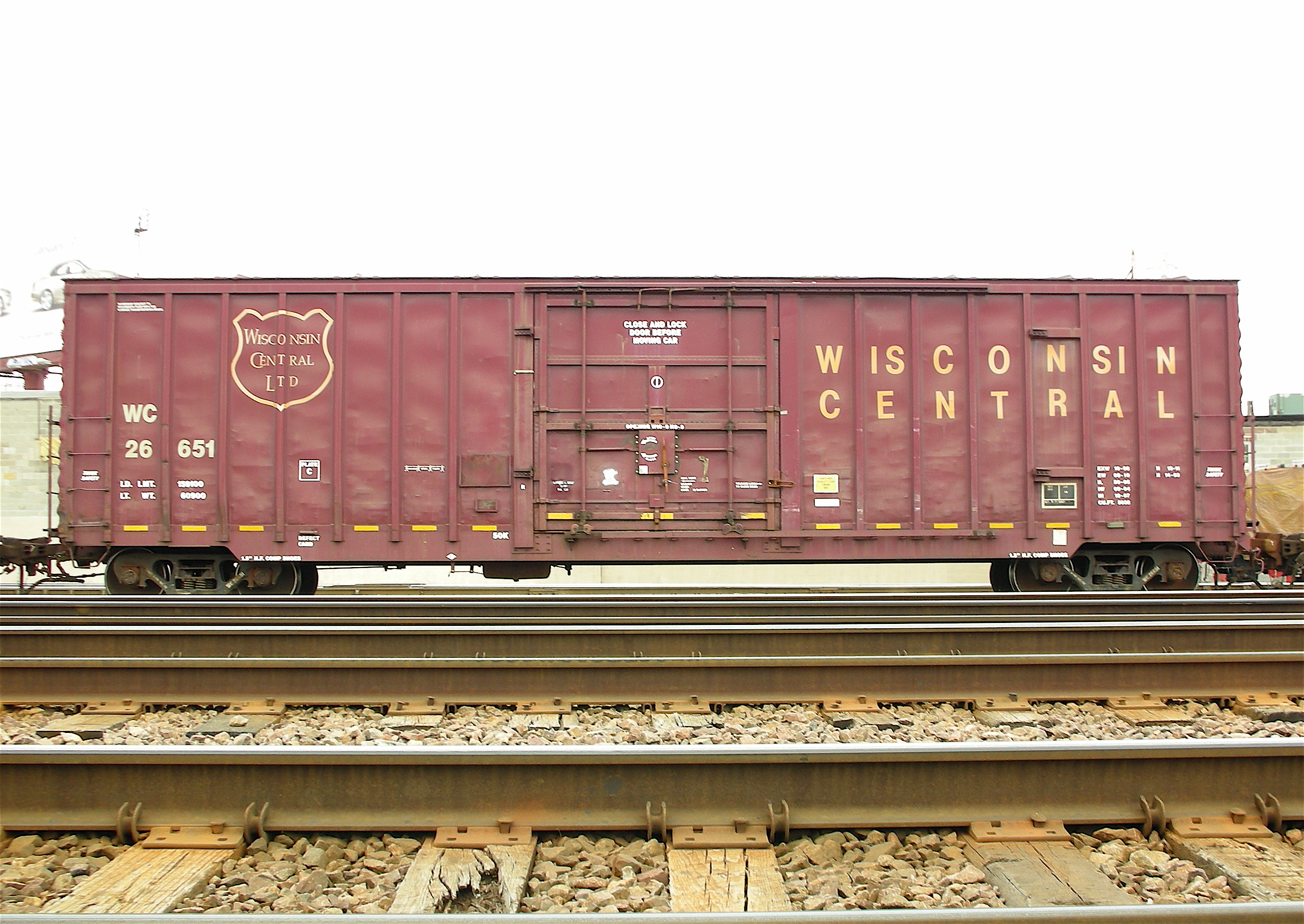 Wisconsin Central boxcar.